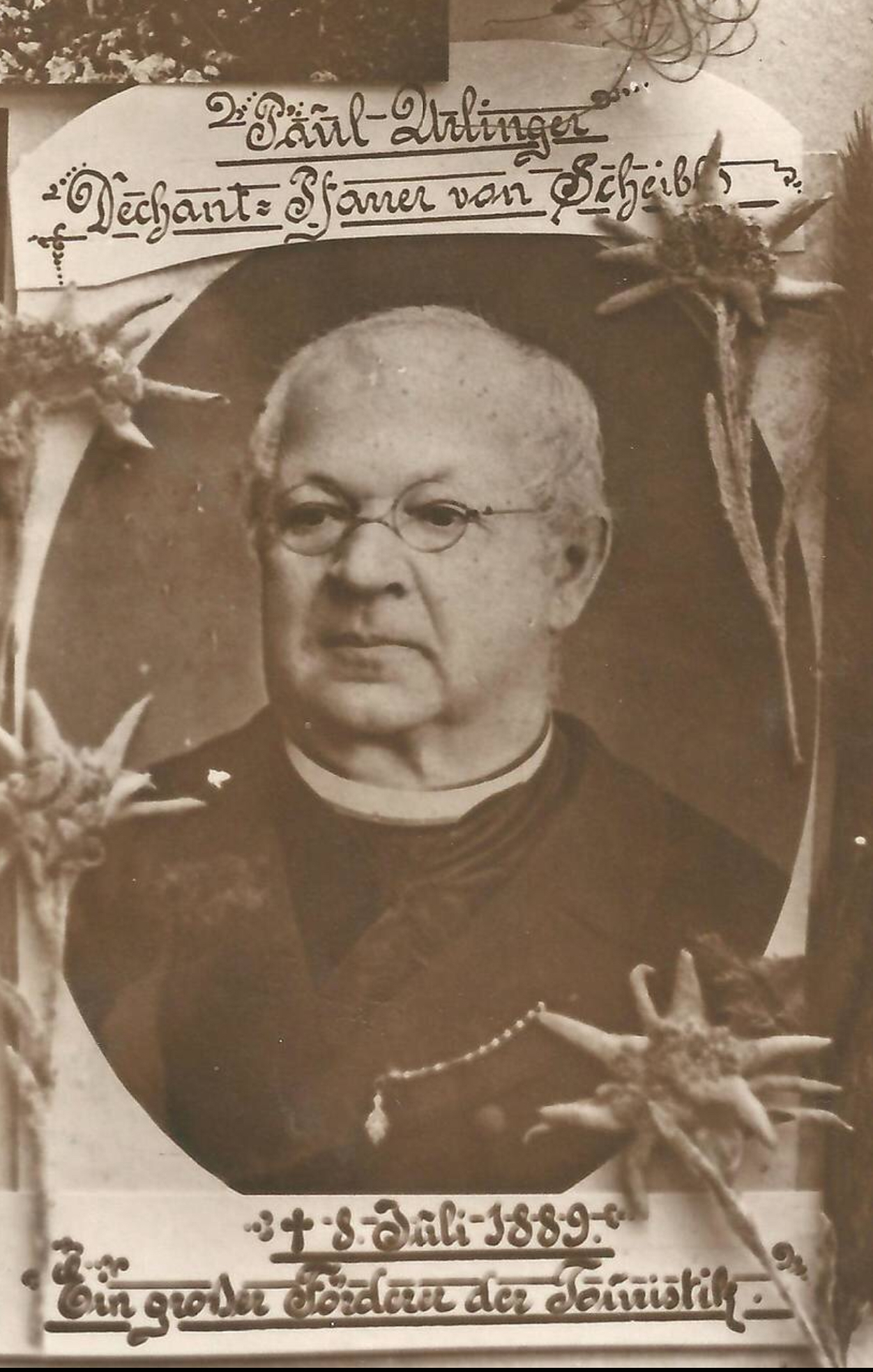 Paul Urlinger